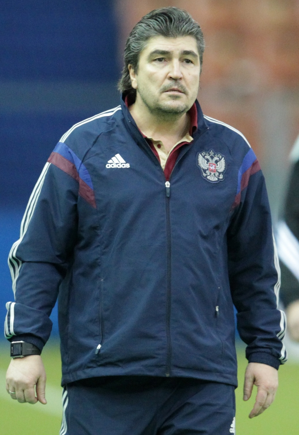 Nikolai Pisarev coaching Russia U-21 against Estonia U-21 on 21 January 2016.